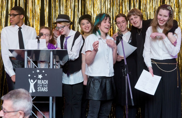 Mayday Club Youth Choir Performing at a Gala in 2017.